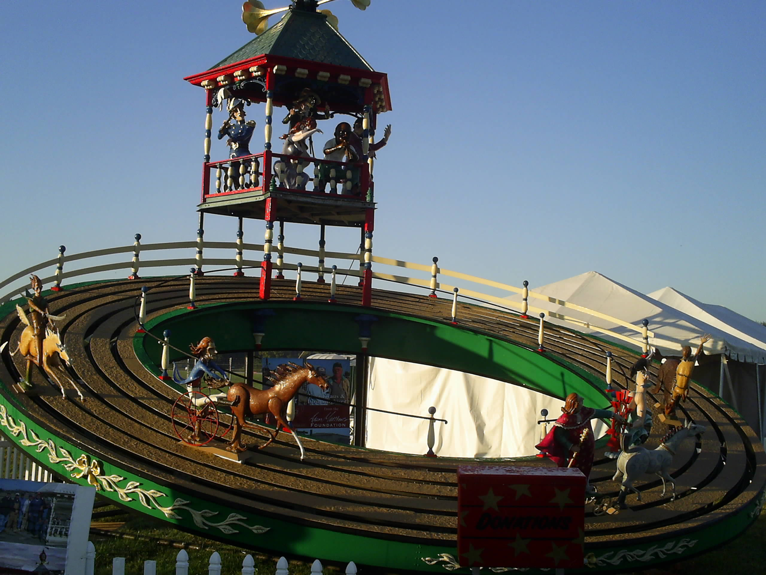 The Derby Clock at Bowman Field. See Louisville Clock